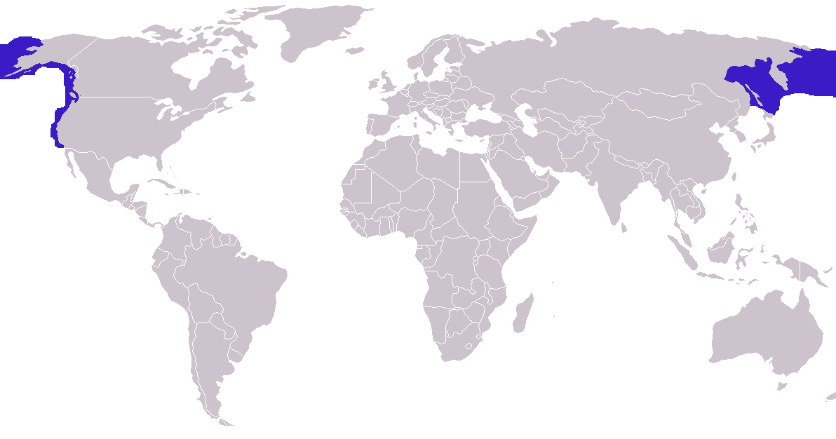 Distribution of the Steller Sea Lion